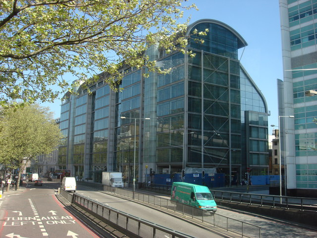 The Wellcome Trust, Gibbs Building Glass and steel building at 215 Euston Road designed by Hopkins Architects and opened in 2004 as the administrative headquarters of the Wellcome Trust.